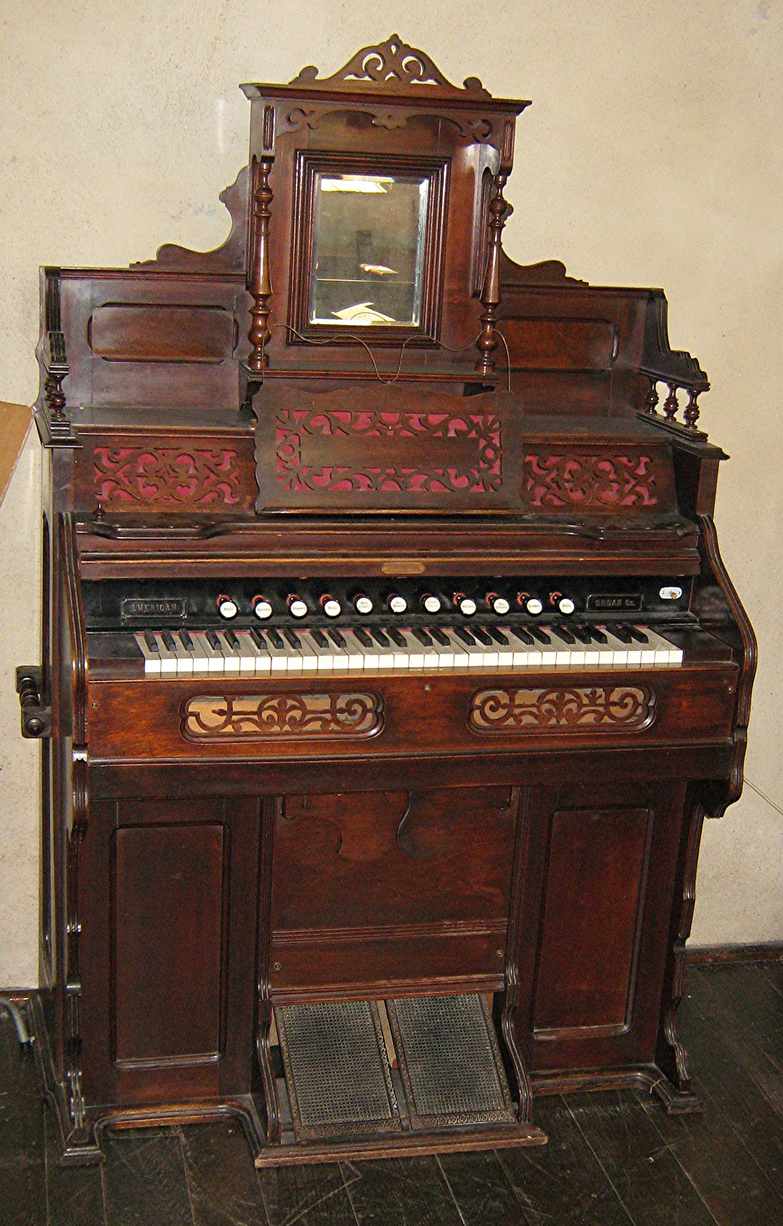 „American Organ“ melodeon in the st. Mary chapel in St. Odiliënberg